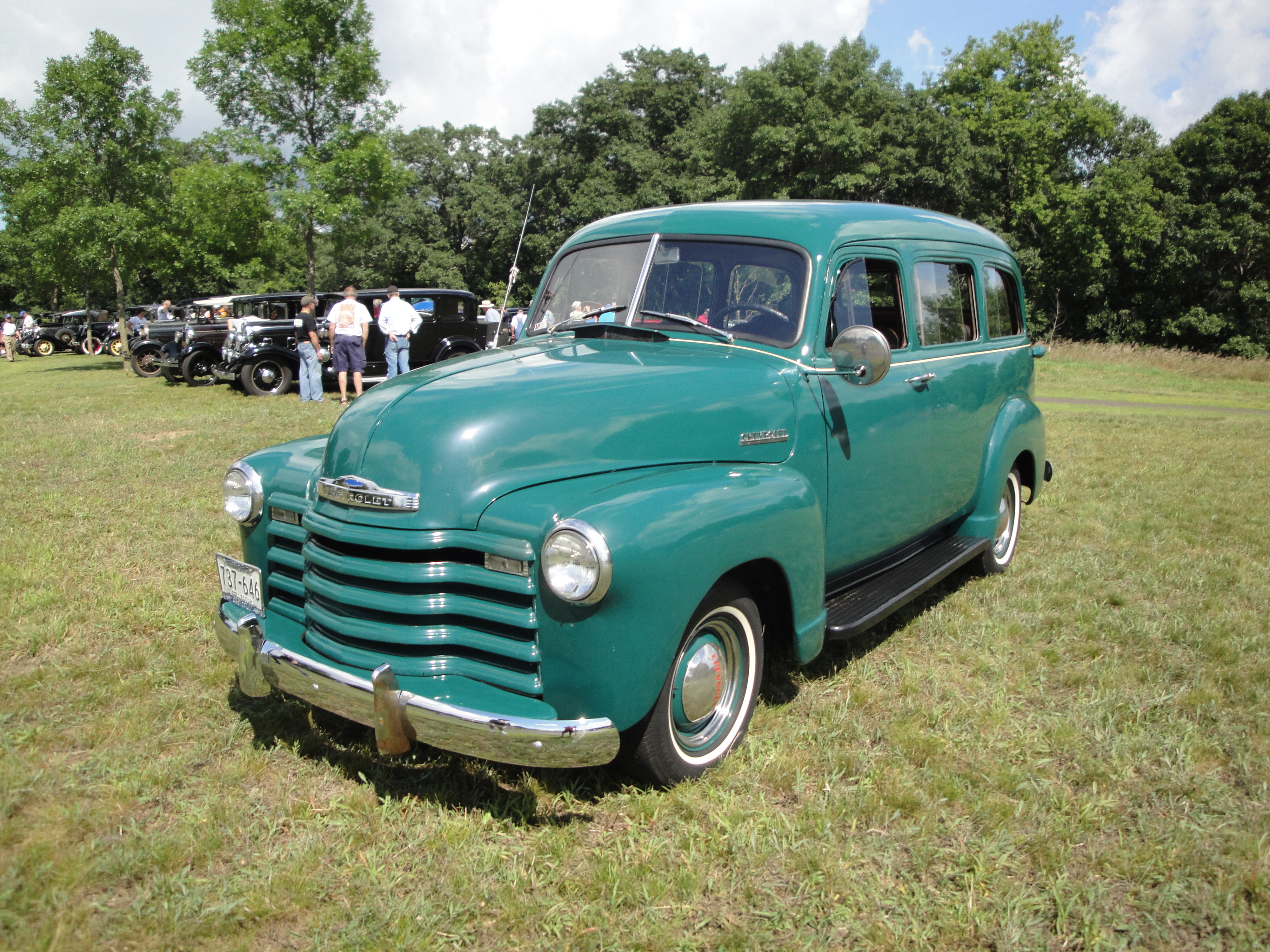 Silver Anniversary New London to New Brighton Antique Car Run Stockyard Days Car Show New Brighton Minnesota